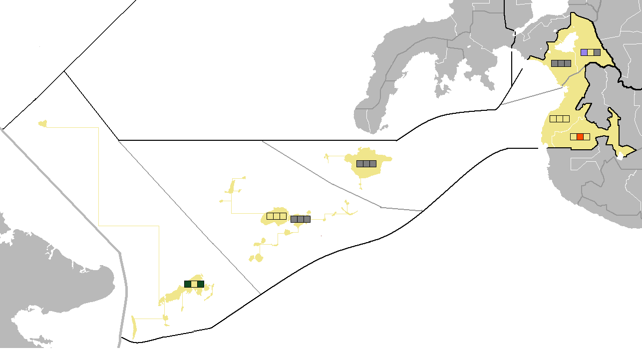 Results of the Autonomous Region in Muslim Mindanao general election, 2016. Winning party is shaded. Gubernatorial election: Winning party per province. Assembly election: Winning party per seat (box) per district.